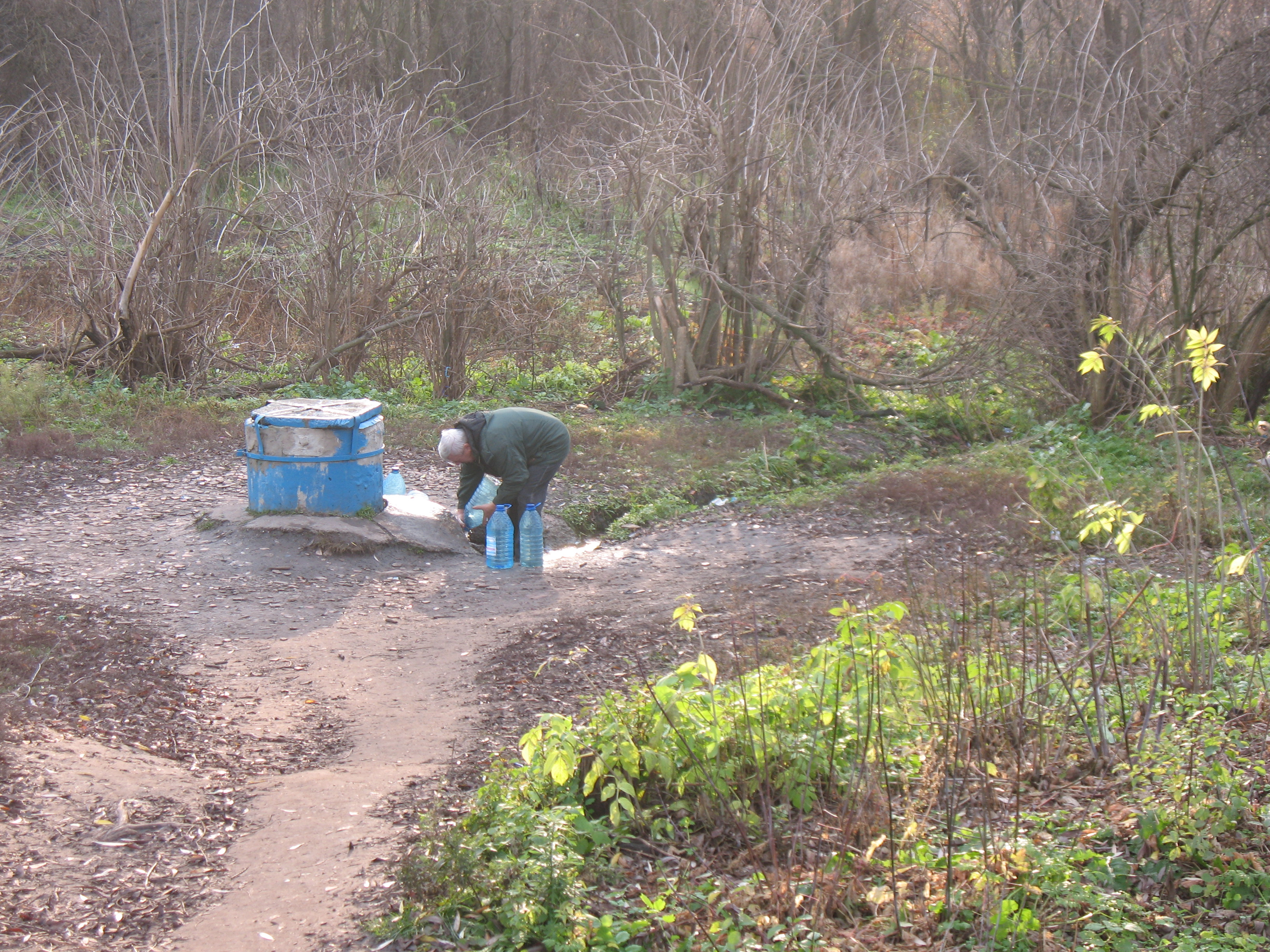 Rogan.